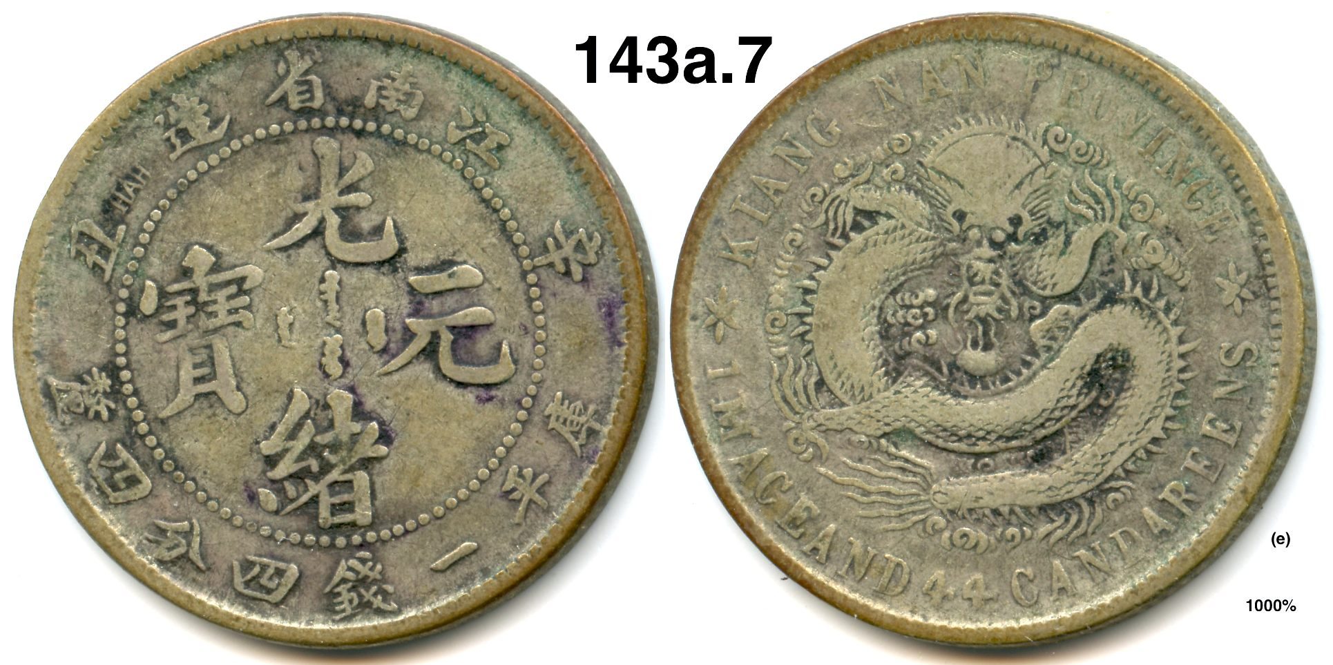 143a.7 20 Cents, CD1901, Kuanag-hsu, Dragon, Variety: HAH LM245, K91 Vg+ $20.00 DC.